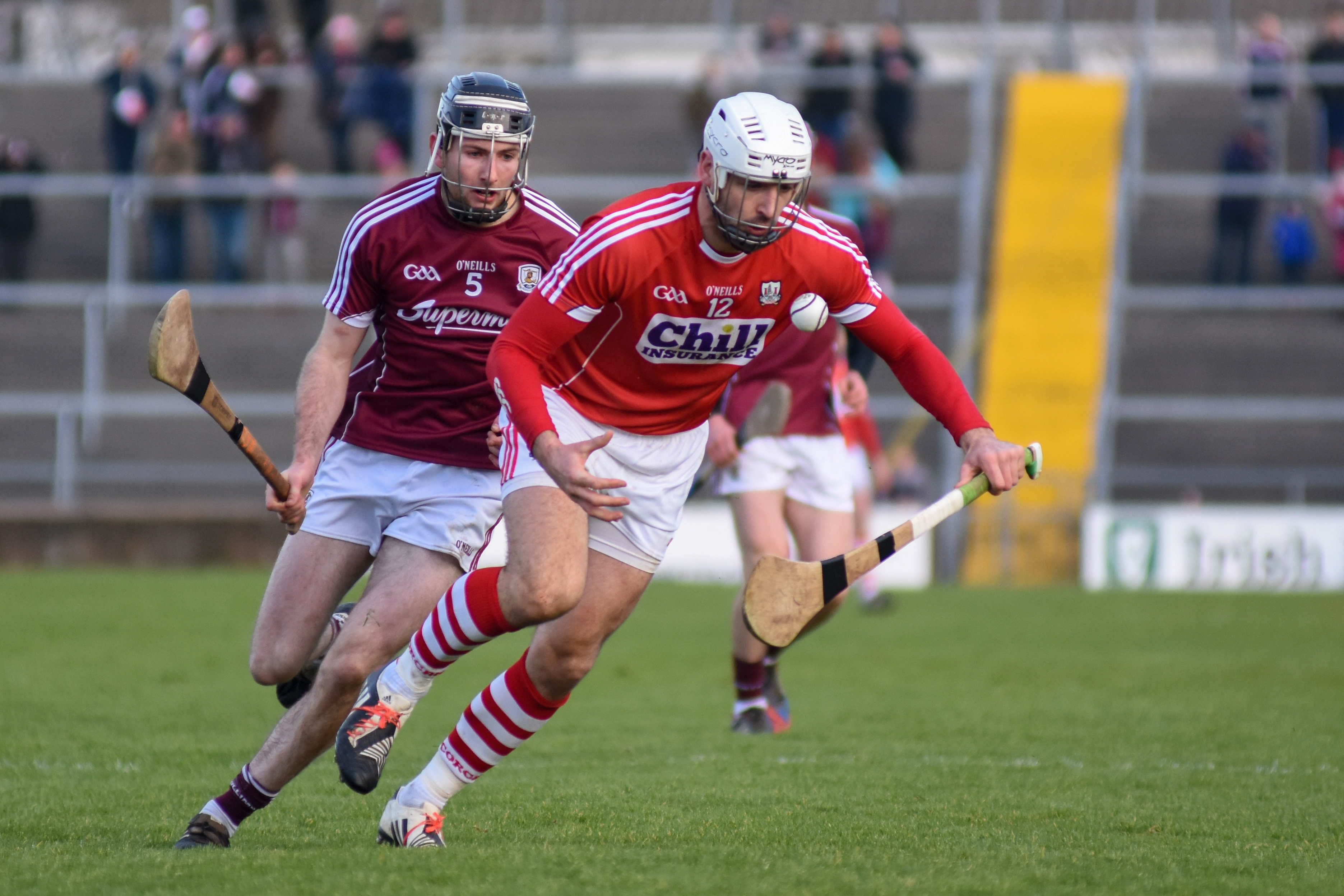 Padraig Mannion (Galway) and Patrick Cronin (Cork) in action in the 2016 National Hurling League at Pearse Stadium